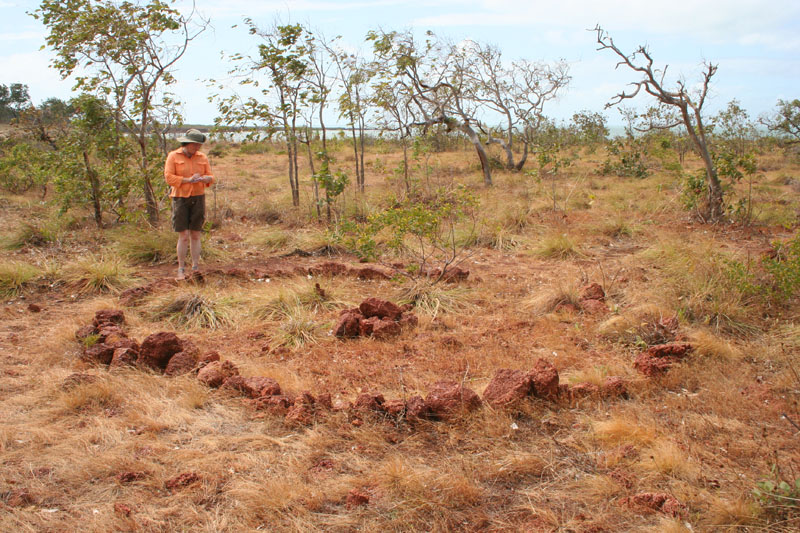 Picture of the Macassan Stone arrangement near Yirrkala, Northern Territory, Australia Photo by Ray Norris